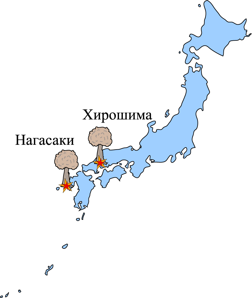 Map of Japan with location of Hiroshima and Nagasaki